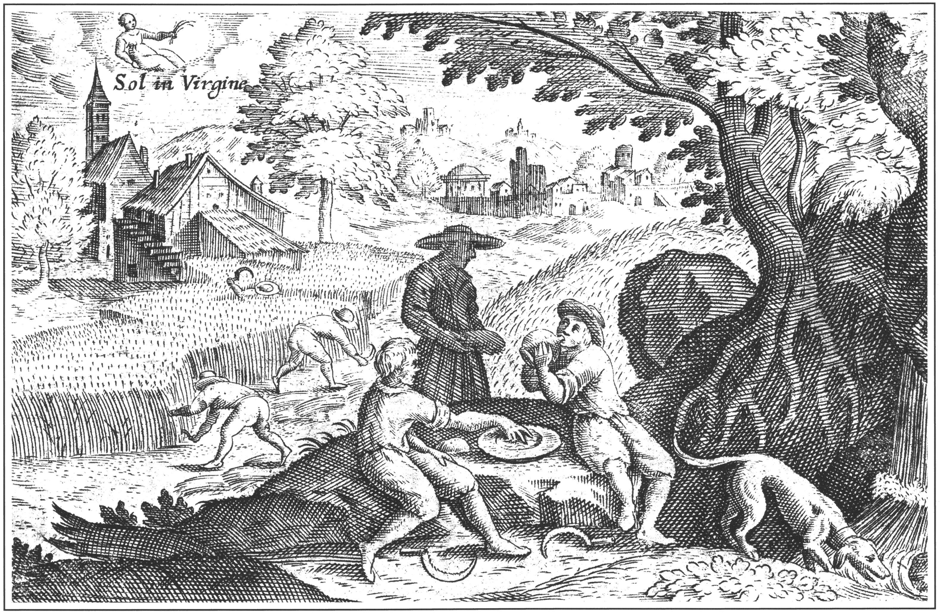 Augustus, Aleksander Tarasowicz